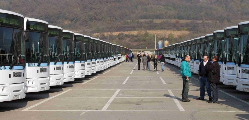 Ikarbus buses in Serbia.